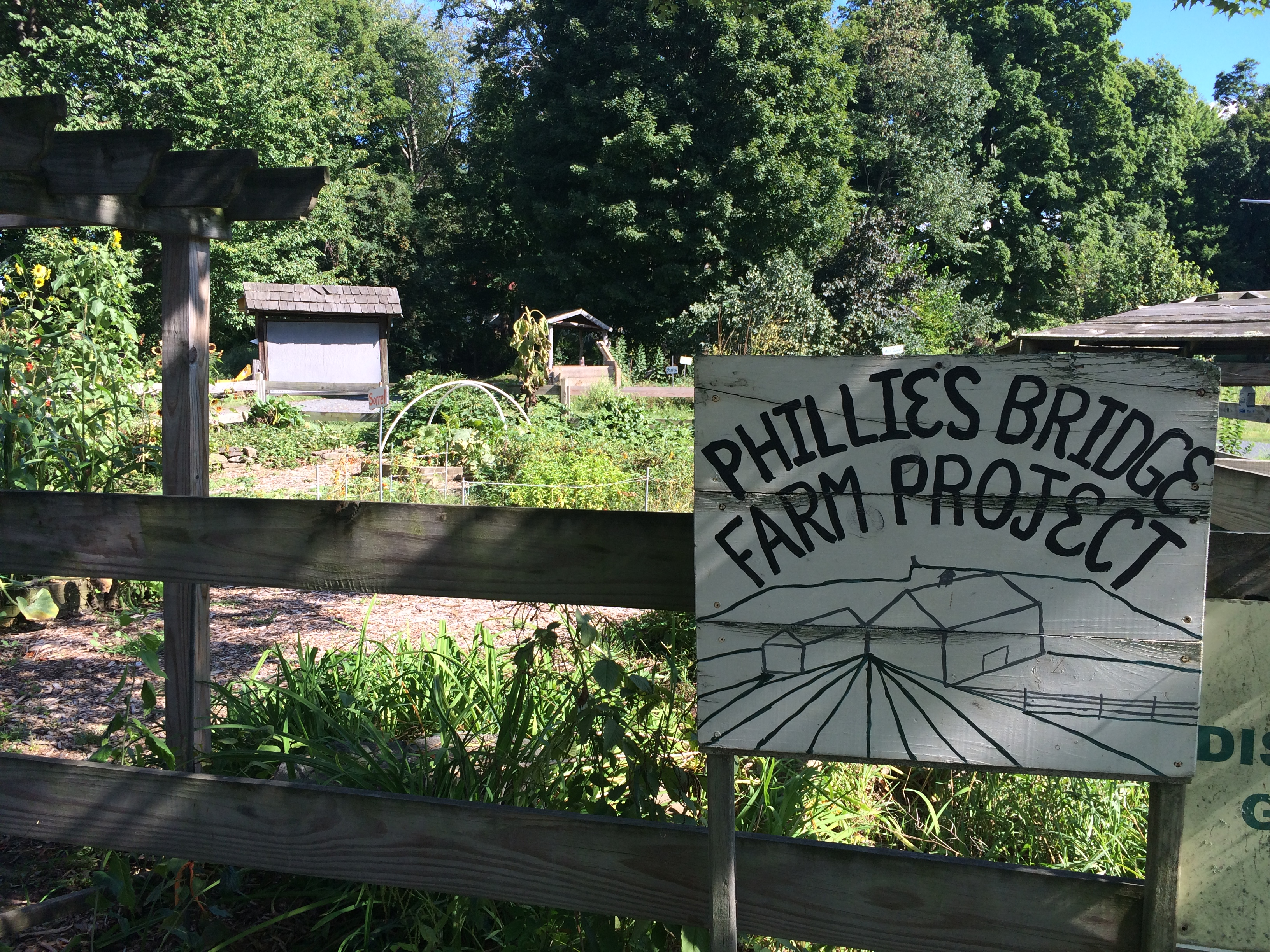 The garden of Phillies Bridge Farm Project 2015